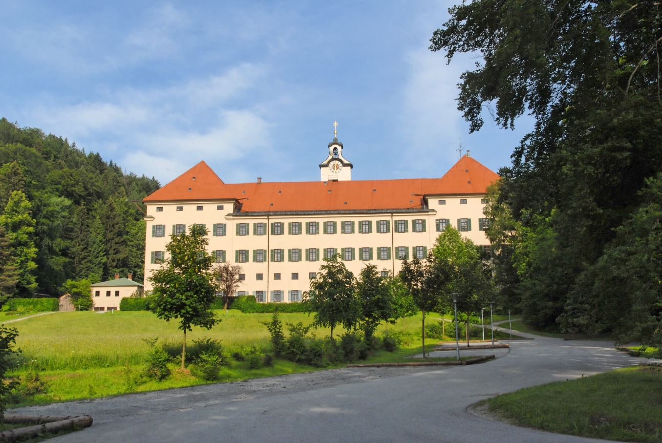 Lenggries, castle "Schloss Hohenburg"